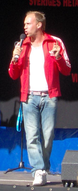 Swedish comedian Jakob Öqvist at the Skrattstock comedy festival in Stockholm on June 3rd 2006.